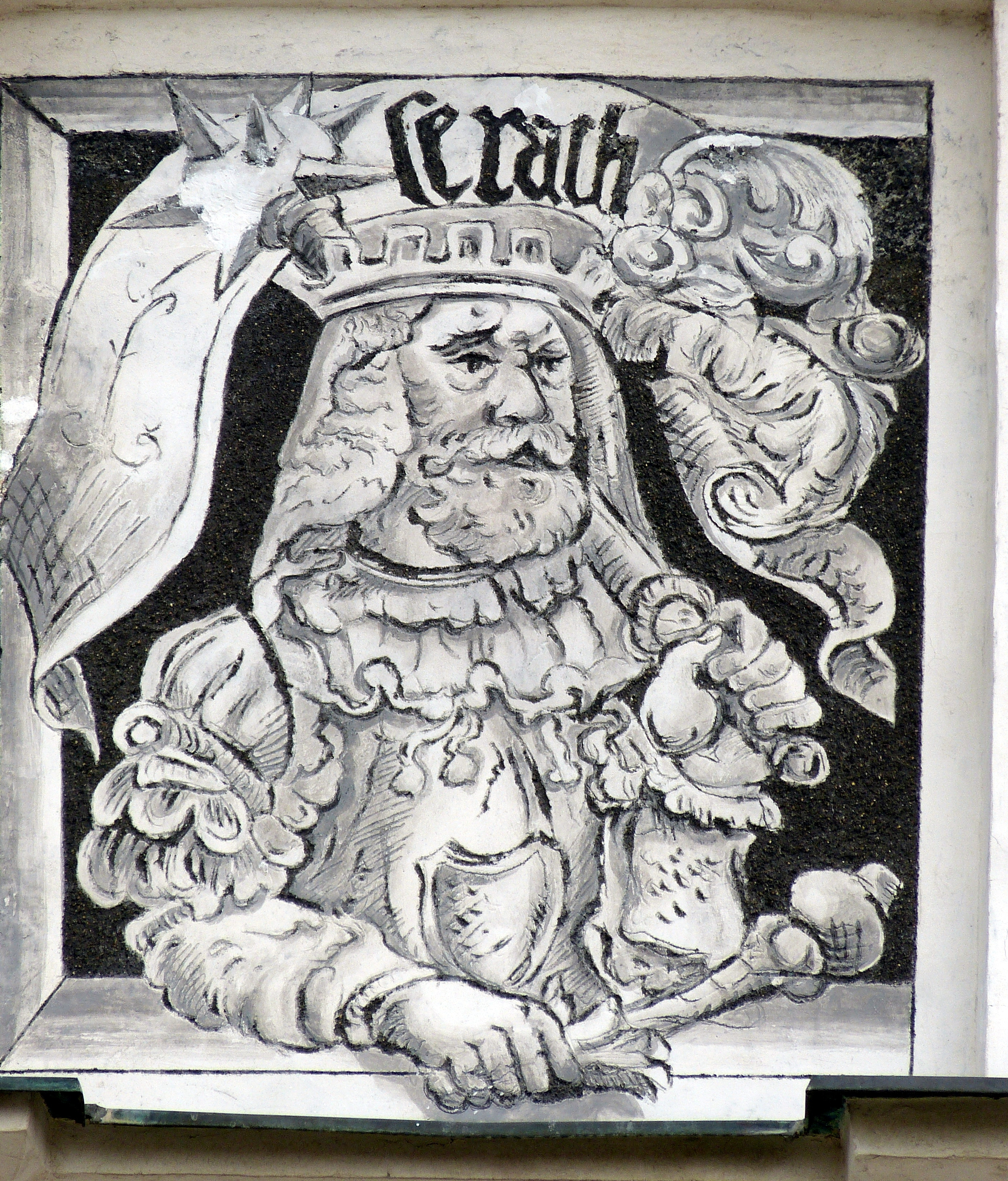 Telč ( Czech Republic ). Central square, house 15 with sgrafitto-facade ( 1555 ) - detail: Gable showing sgrafitti with heroes of the antiquity - Serach.